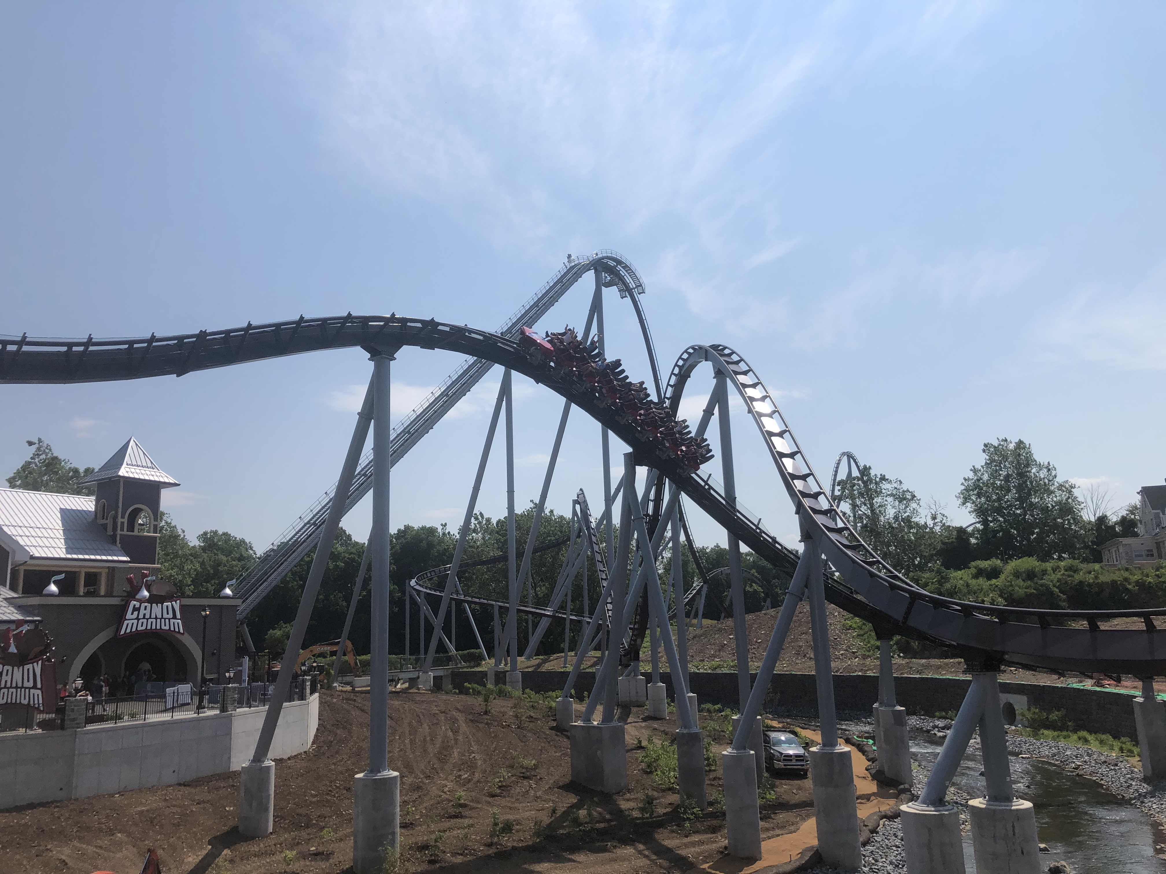 Candymonium In July of 2020